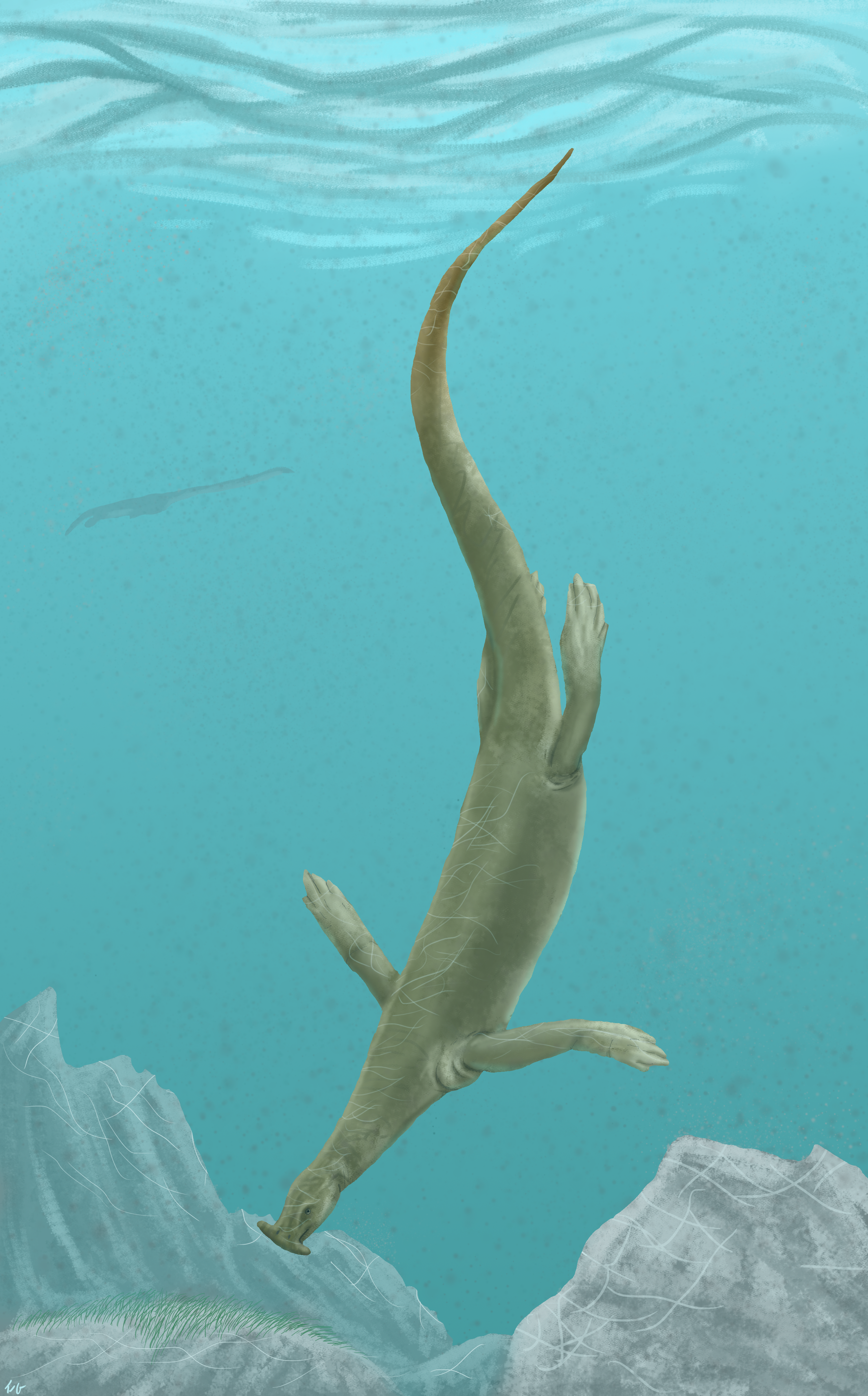 Revamped drawing with changed dinocephalosaurus and atopodentatus